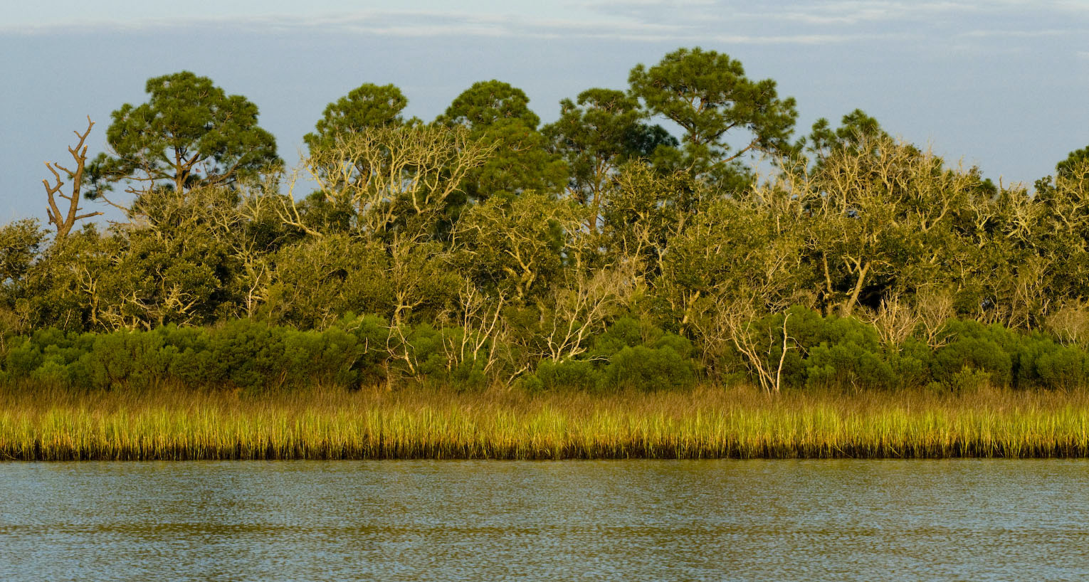 More frequent storm surge flooding and permanent inundation of coastal ecosystems and communities is likely in low-lying areas, particularly along the central Gulf Coast where the land surface is sinking, according to “A State of Knowledge Report” from the U.S. Global Change Research Program. This barrier island is part of the Grand Bay National Wildlife Refuge. Photo by Tom Carlisle.